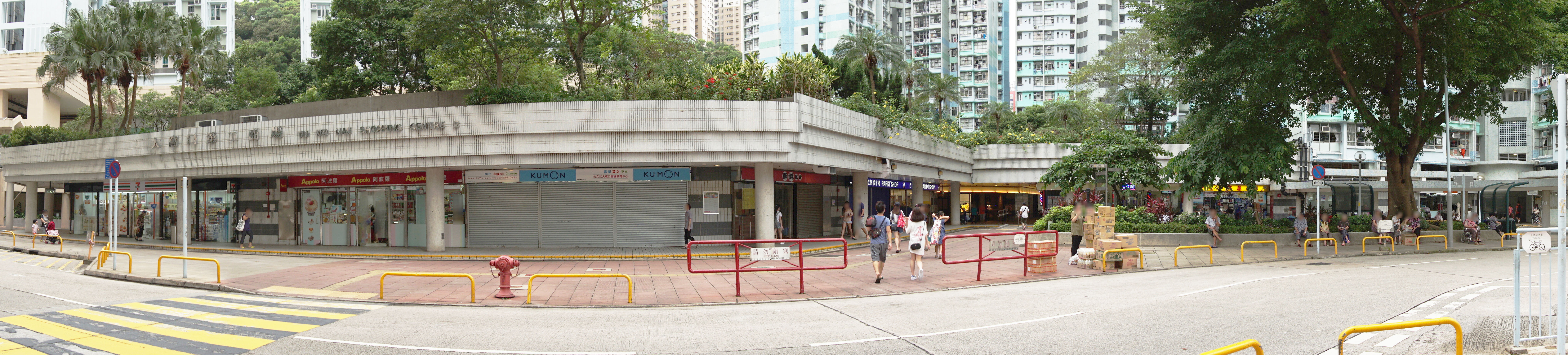 Tai Wo Hau Estate in Tai Wo Hau, Hong Kong.